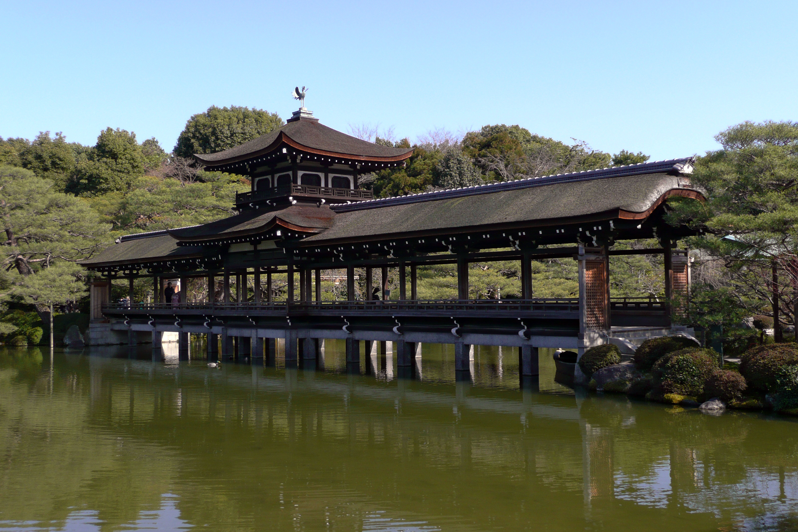 Heian-jingu shinen, Kyoto, Kyoto prefecture, Japan